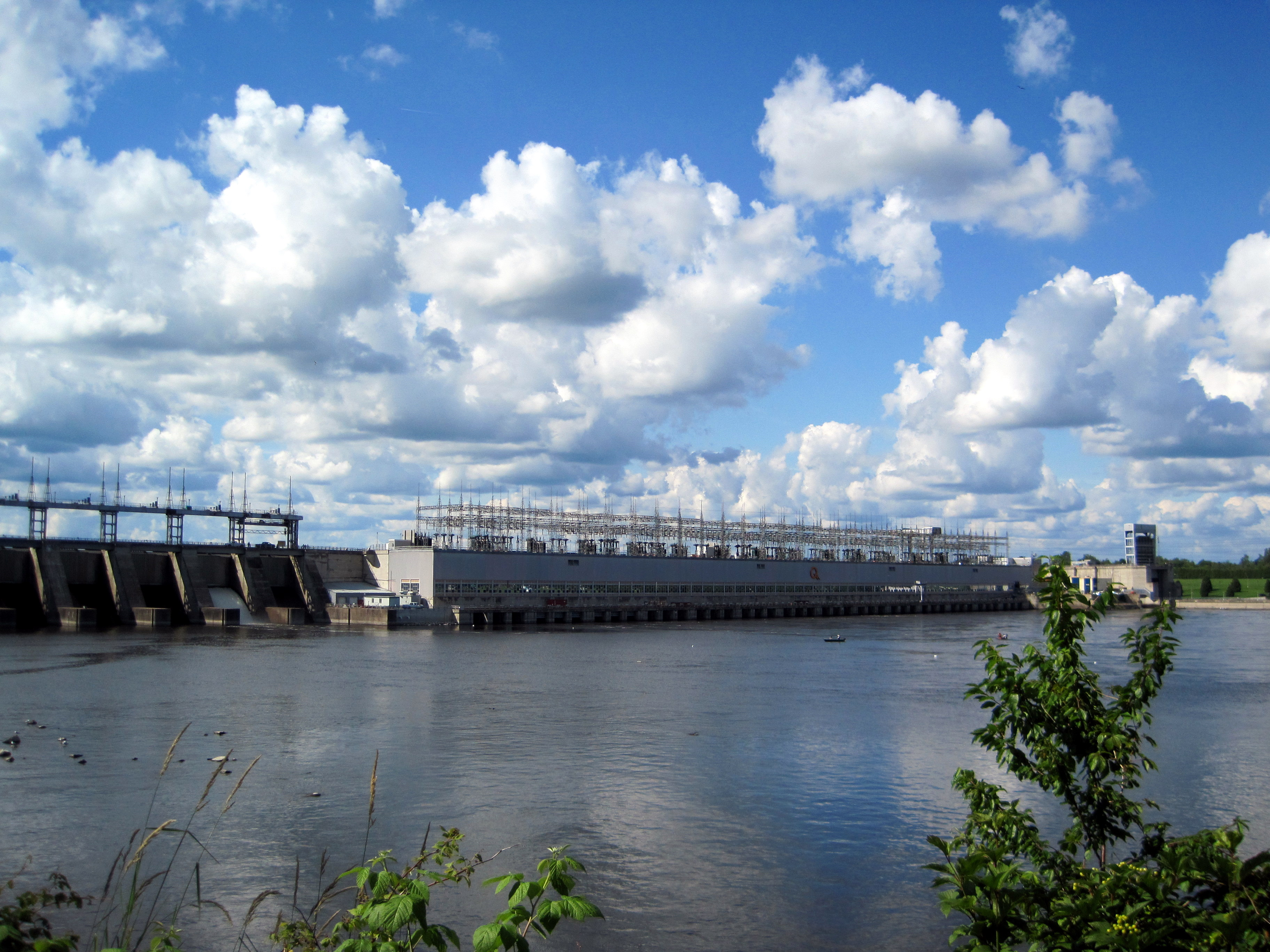 Carillon Hydro-electric Dam, Pointe-Fortune, Quebec.